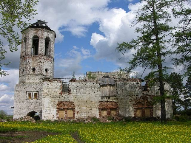 Kargopol (Russia), Alexandro-Oshevensky Monastery, Uspensky Cathedral.